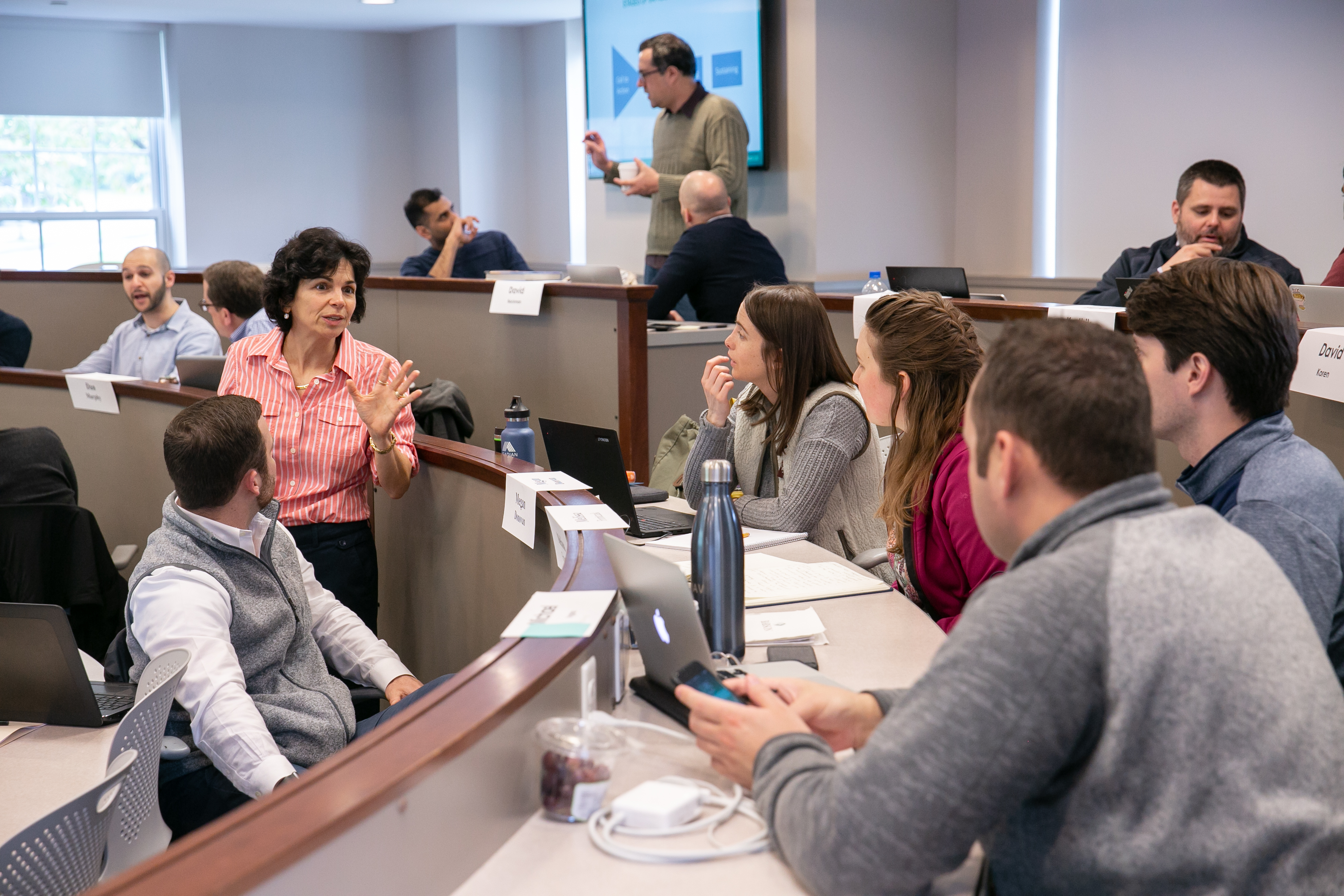 Gina O'Connor teaching at Babson